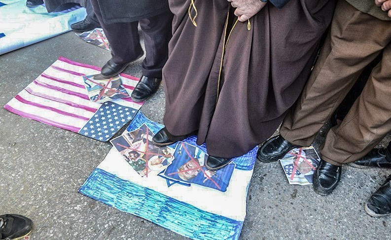 The burning of the American and British flags and the image of Mohammed bin Salman in Gaza in protest of the announcement of Jerusalem as the capital of the Zionist regime- Desember 2017